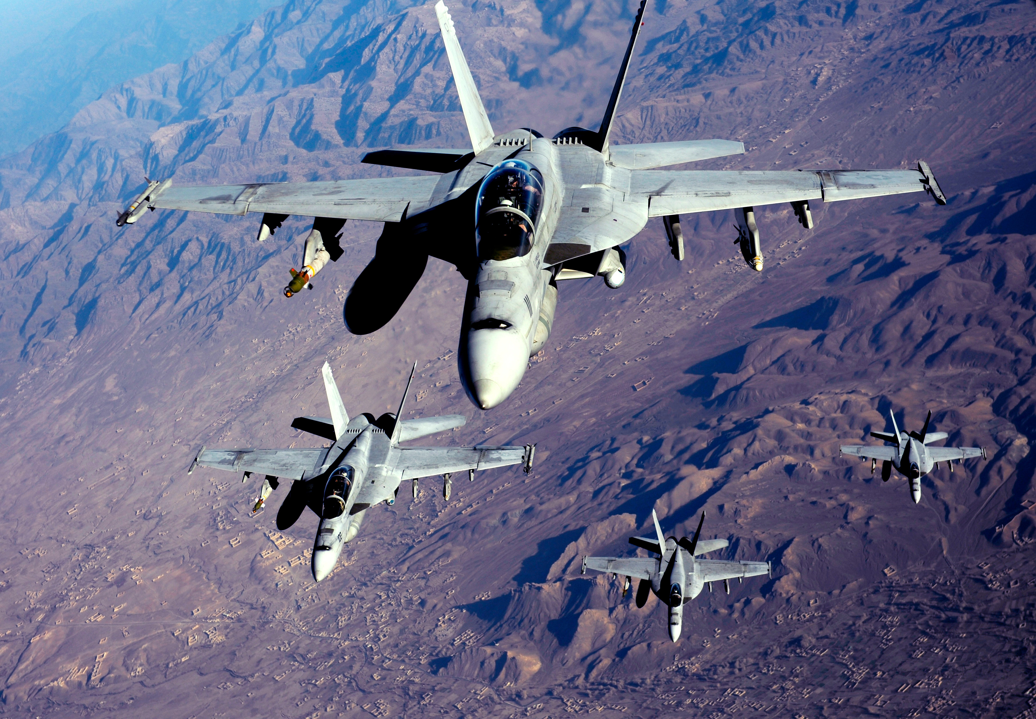 A U.S. Air Force KC-10 Extender aircraft assigned to the 908th Expeditionary Air Refueling Squadron and deployed in support of Operation Enduring Freedom and Operation New Dawn at a location in Southwest Asia, supplies fuel for four F/A-18 Super hornets over the mountains of Afghanistan.